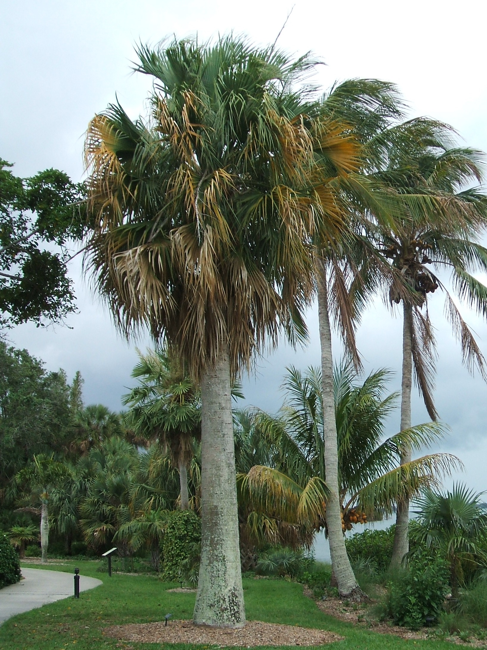 Sabal causiarum at Marie Selby Botanical Gardens, Sarasota, Florida, USA